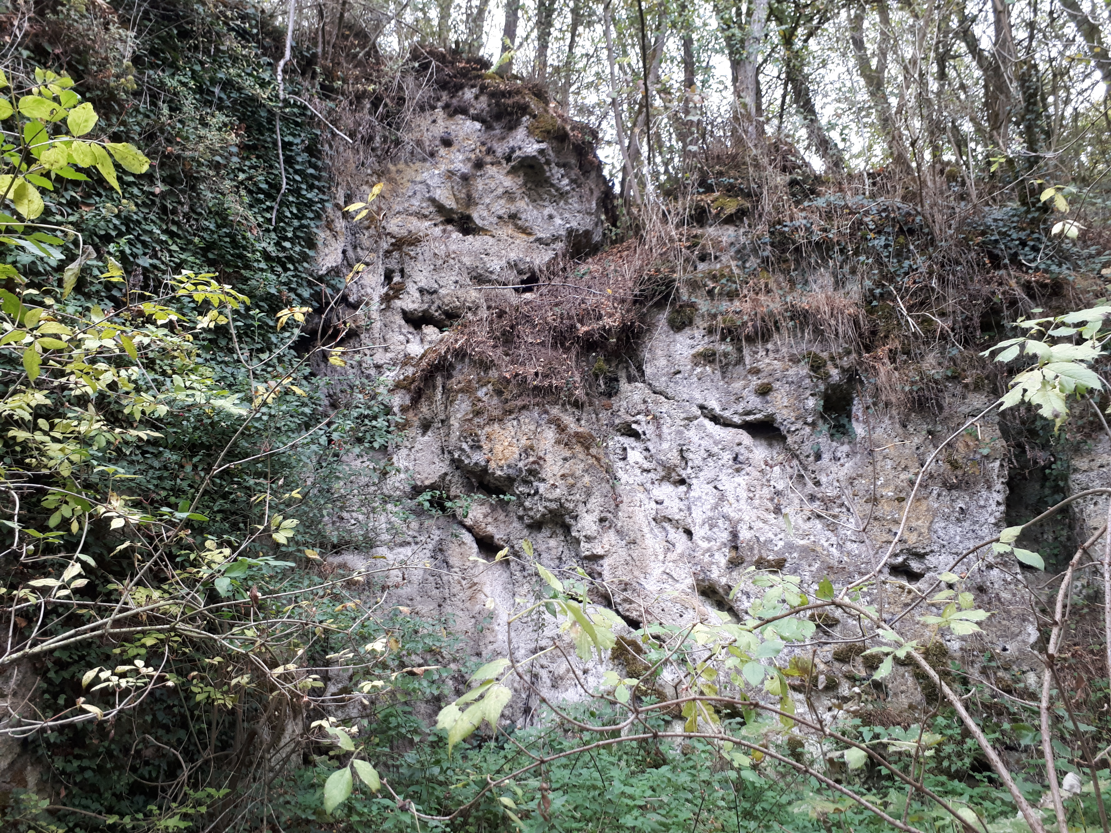 Sudelfels near Ihn (largest lime deposits in Saarland): Open part of the rock